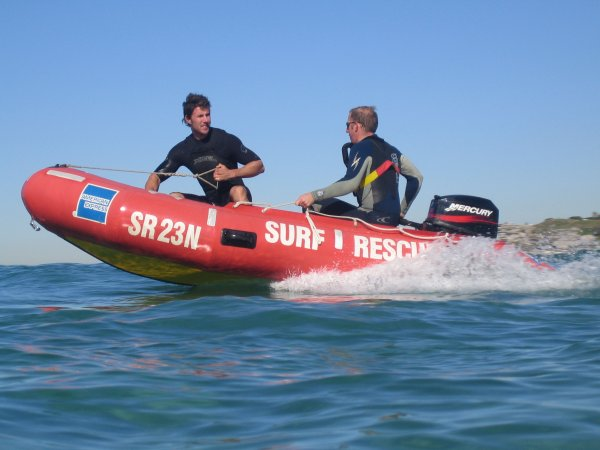 IRB Drivers at Bondi Beach; courtesy J Kennedy-White